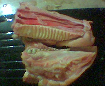 A pig's snout, chopped down the midline, showing the palate and other associated internal nasal cavities. This is often used in the Filipino dish "sisig".